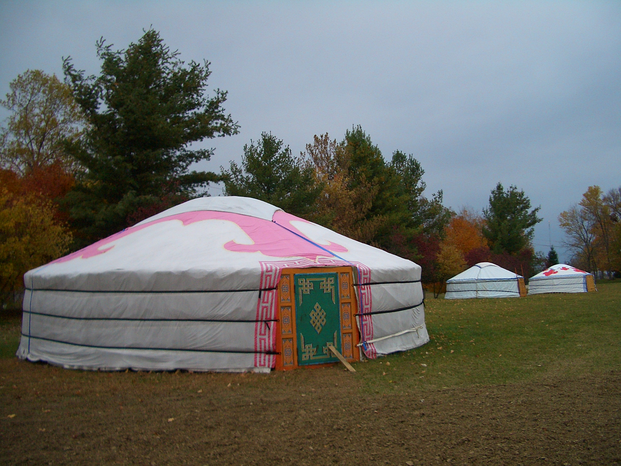 On the grounds of Tibetan Mongolian Buddhist Cultural Center, located on south-eastern outskirts (3655 S. Snoddy Rd.) of Bloomington, IN. Set in a wooded area, there is a stupa there, a Teaching Pavillion, and Mongolian yurts.